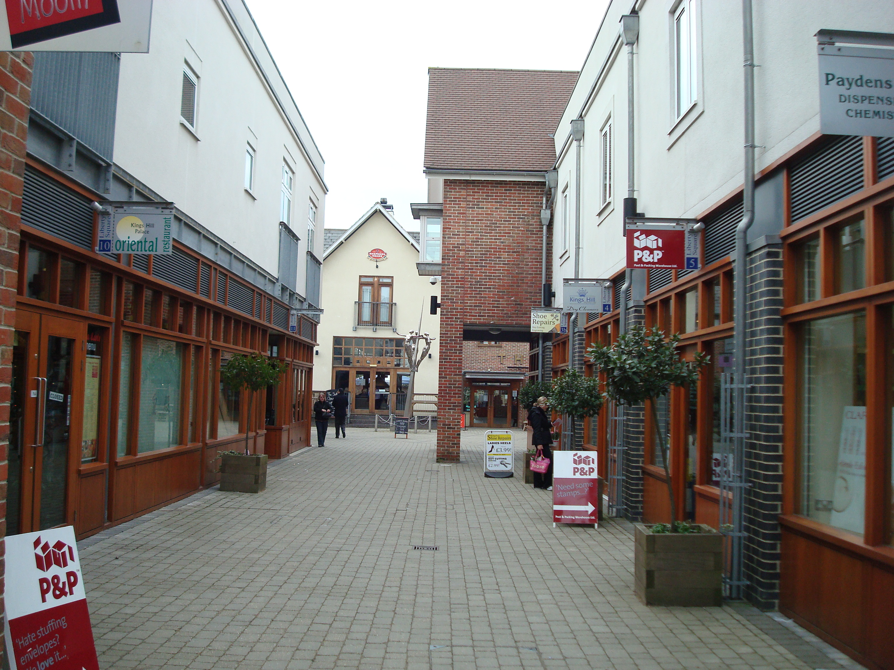 Liberty Square, King's Hill